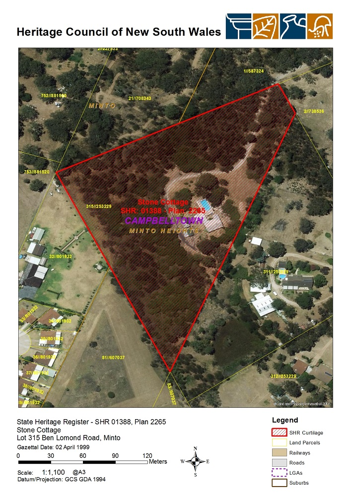 Stone Cottage, Minto: SHR Plan 2265